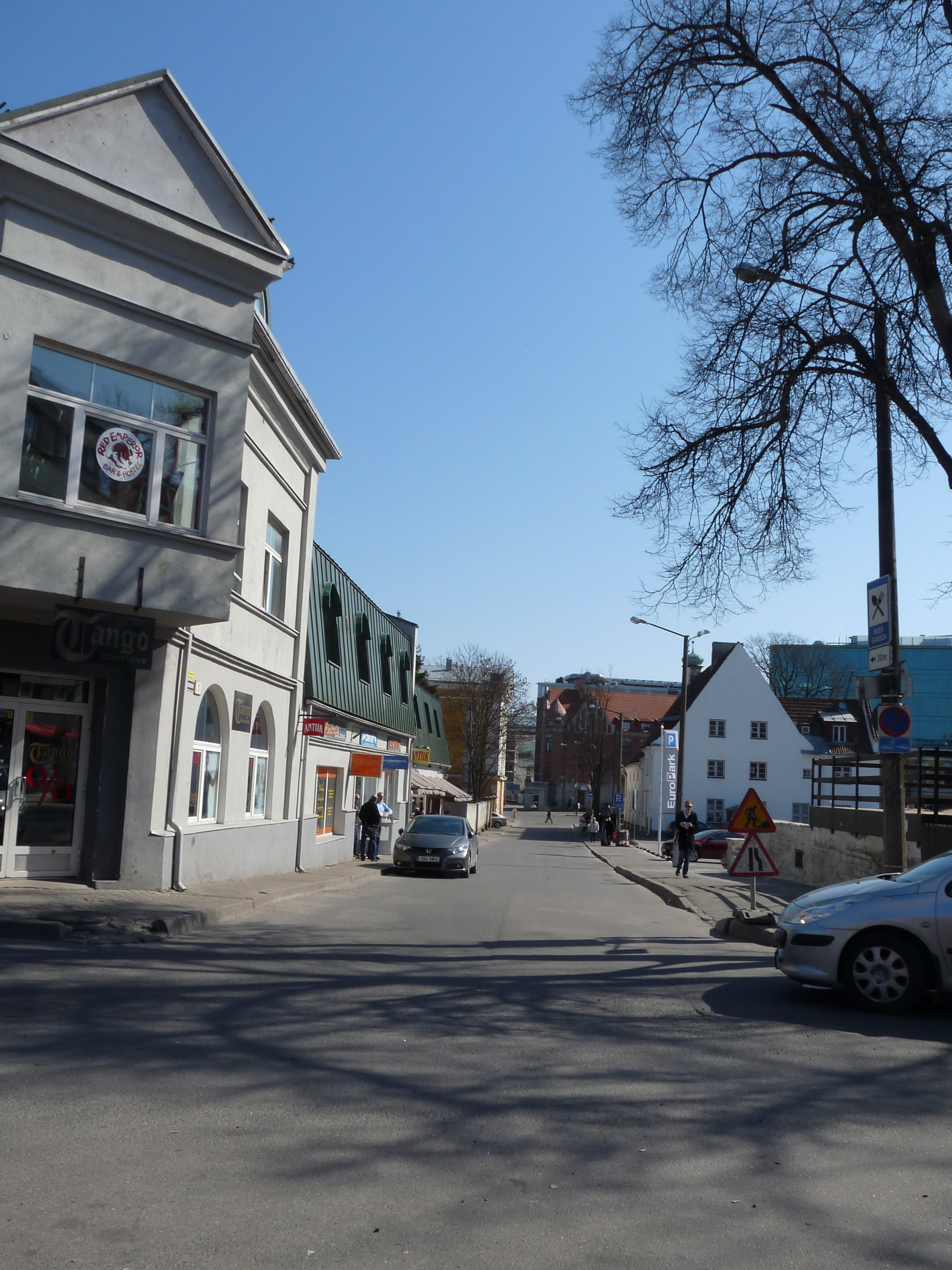 Inseneeri street in Tallinn, Estonia